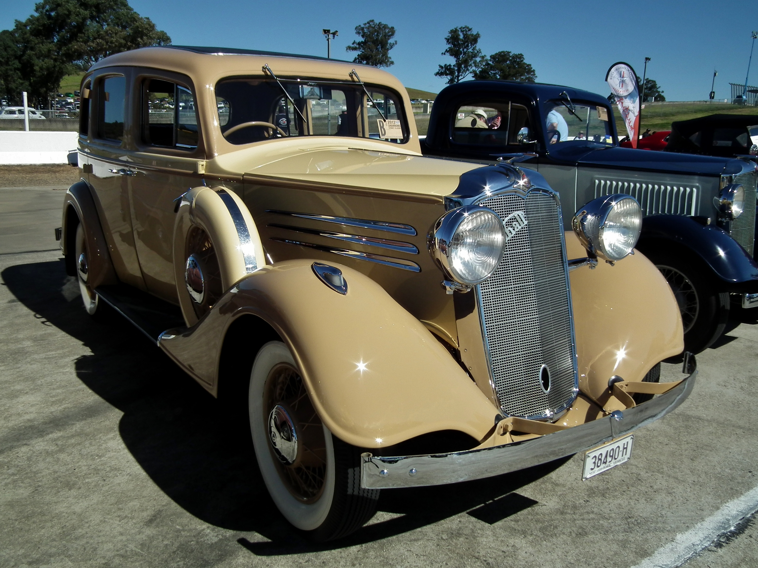 1934 Vauxhall BX Big Six sedan. Body by Holden. Taken at the 2013 Shannon's Eastern Creek Classic display day, held at Sydney Motorsport Park.